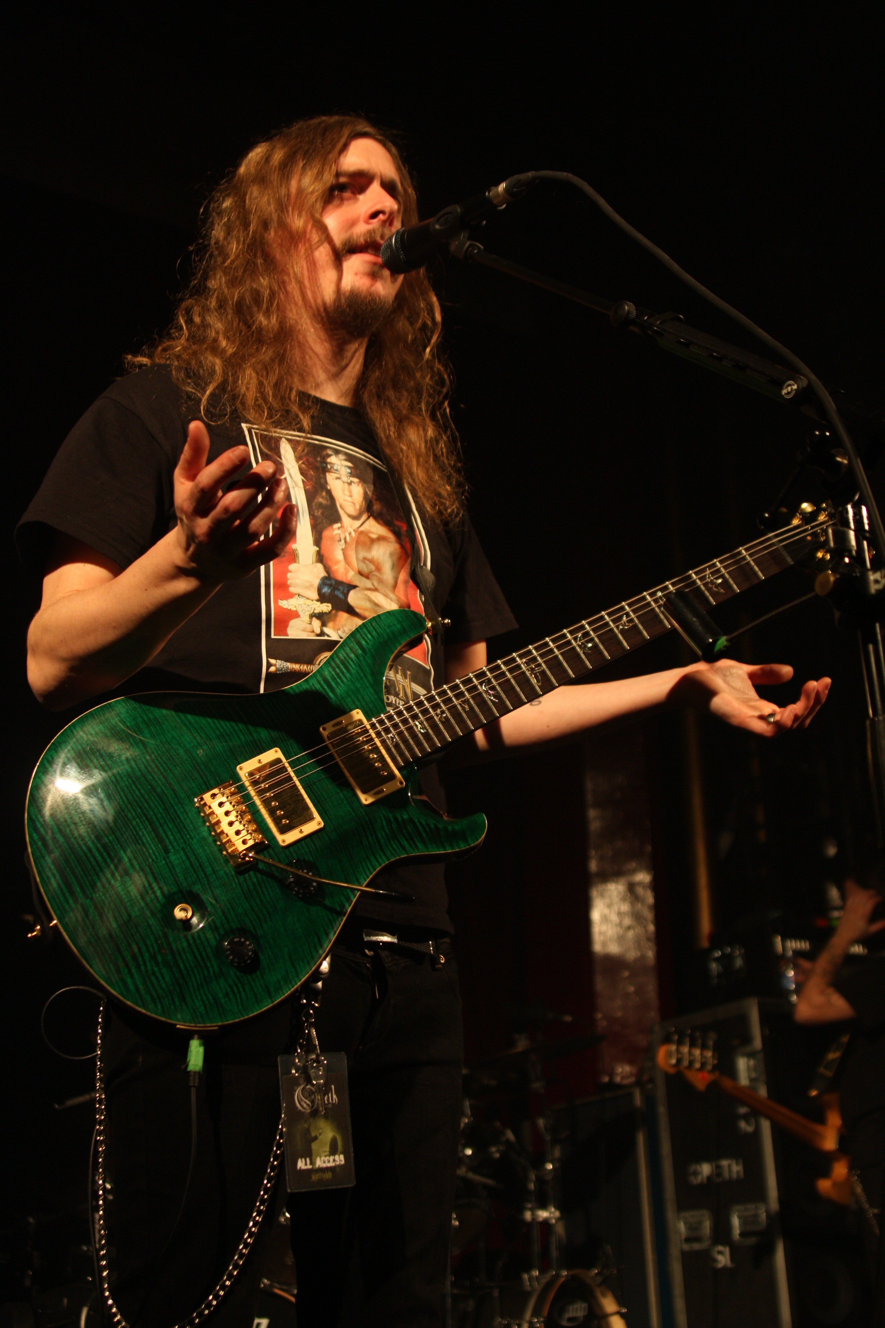 Akerfeldt at Sala Apolo. Barcelona, España.